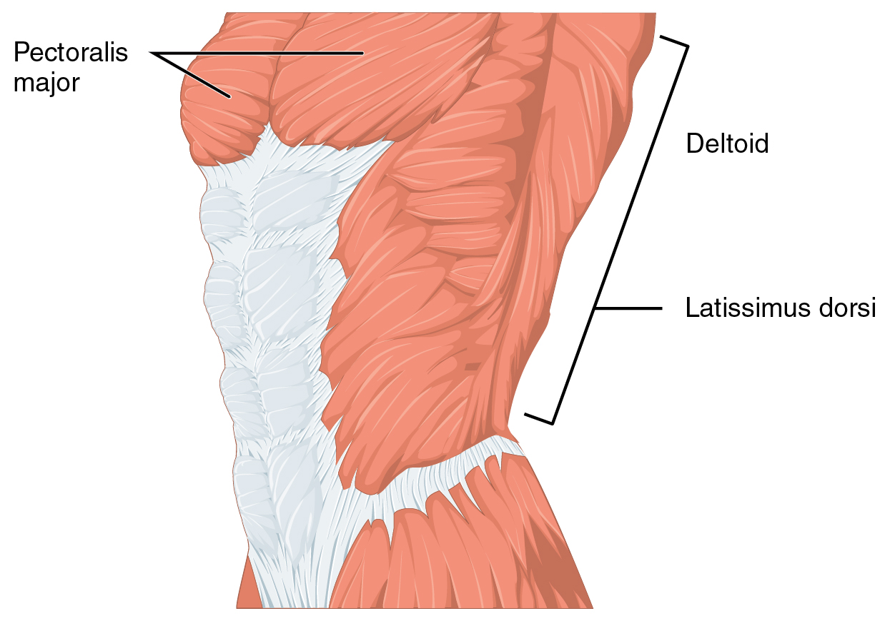 Caption: a, c) The muscles that move the humerus anteriorly are generally located on the anterior side of the body and originate from the sternum (e.g., pectoralis major) or the anterior side of the scapula (e.g., subscapularis). (b) The muscles that move the humerus superiorly generally originate from the superior surfaces of the scapula and/or the clavicle (e.g., deltoids). The muscles that move the humerus inferiorly generally originate from middle or lower back (e.g., latissiumus dorsi). (d) The muscles that move the humerus posteriorly are generally located on the posterior side of the body and insert into the scapula (e.g., infraspinatus). URL: Other versions: Original